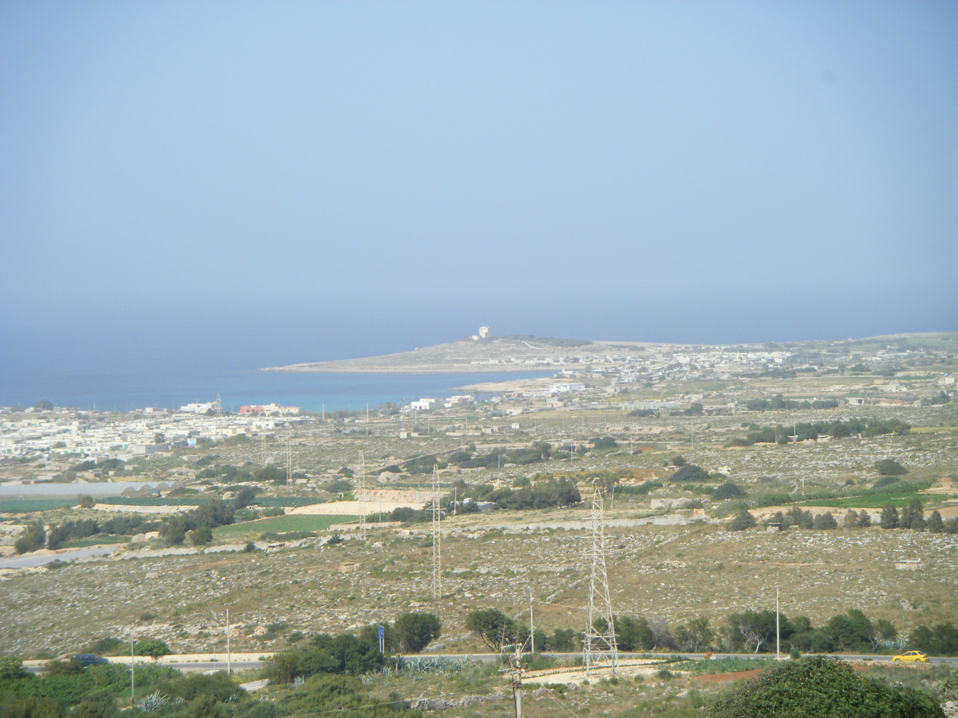 White Tower as seen from St. Agatha's Tower in Mellieha, Malta This media is about Maltese cultural property with inventory number 32.